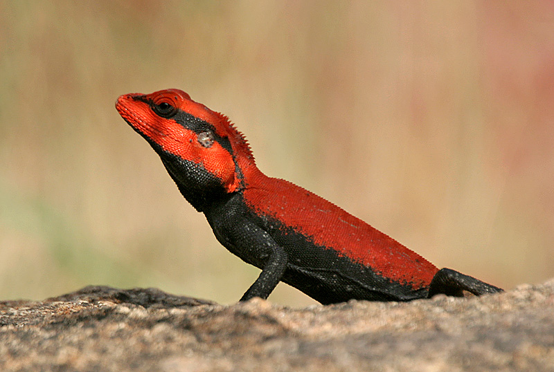 Peninsular Rock Agama Psammophilus dorsalis in Hyderabad , India.